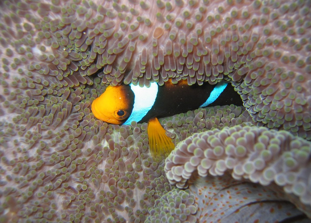 An Orange-fin Anemonefish (Amphiprion chrysopterus) in anemone. Admiralty, Osprey Reef, Coral Sea